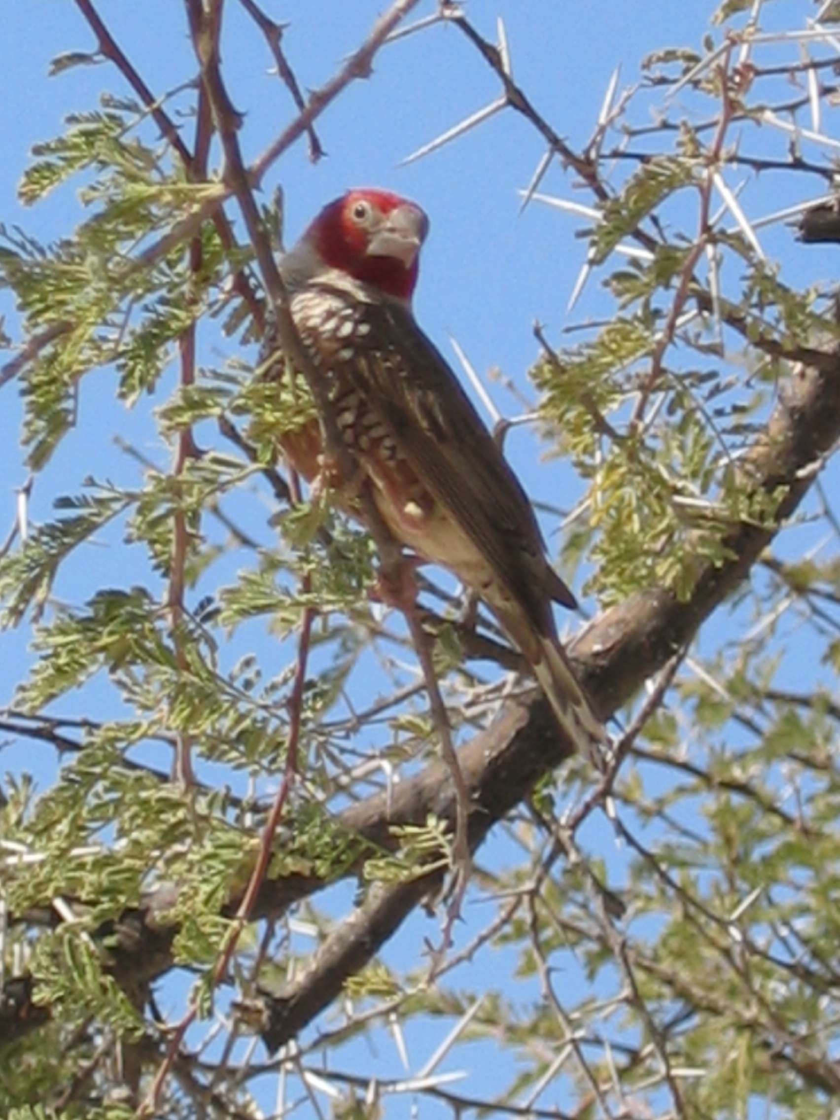 Amadina erythrocephala Eigen foto. Etosha N.P. Afrika 2005